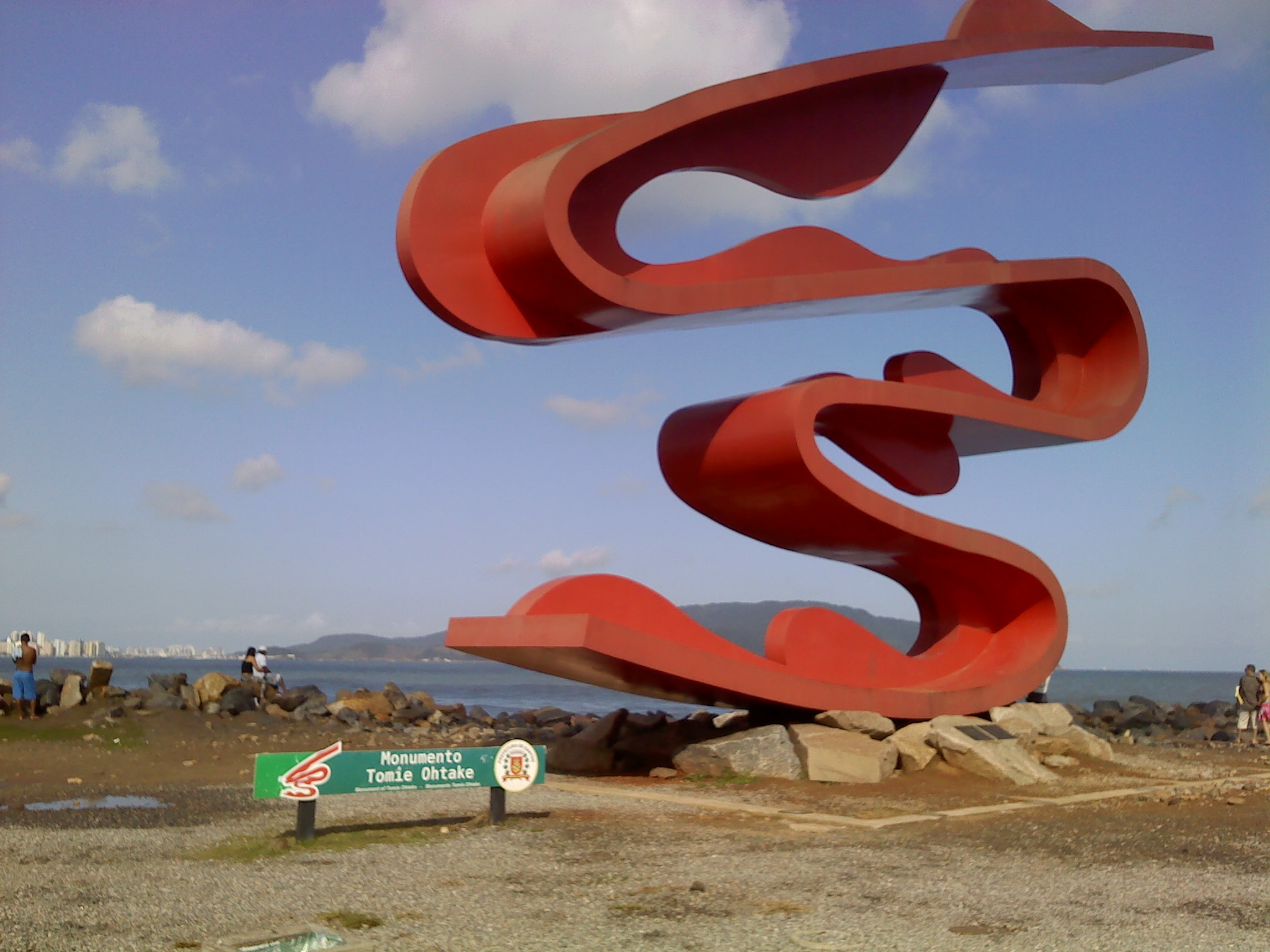 This is a monument opened to the public in 2008 - by the emperor Hiroito - to celebrate the 100 years of Japanese immigration to Brazil. The first immigrants entered the country through the seaport of Santos. The sculpture is monumental: steel, painted red, will have 15 m high, 20 m long and 2 m wide and be at the end of the platform of the Submarine Outfall. It was made by Tomie Ohtake, who was born in Kyoto 93 years ago, and came to Brazil in 1936.